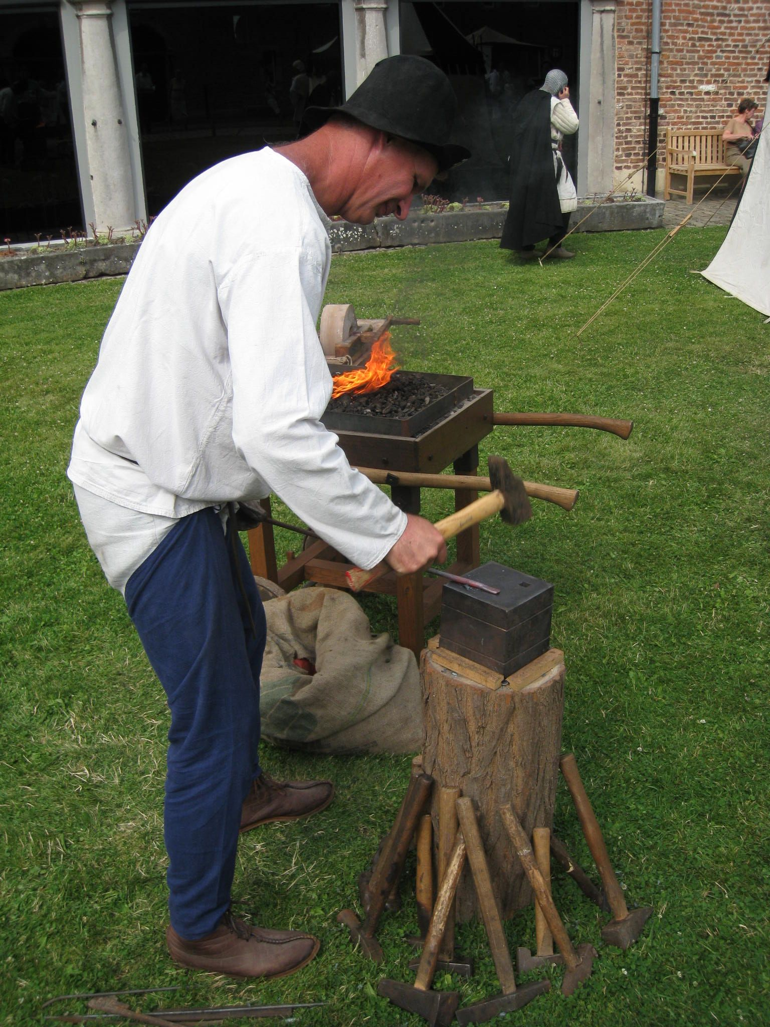 Wapensmid aan aambeeld